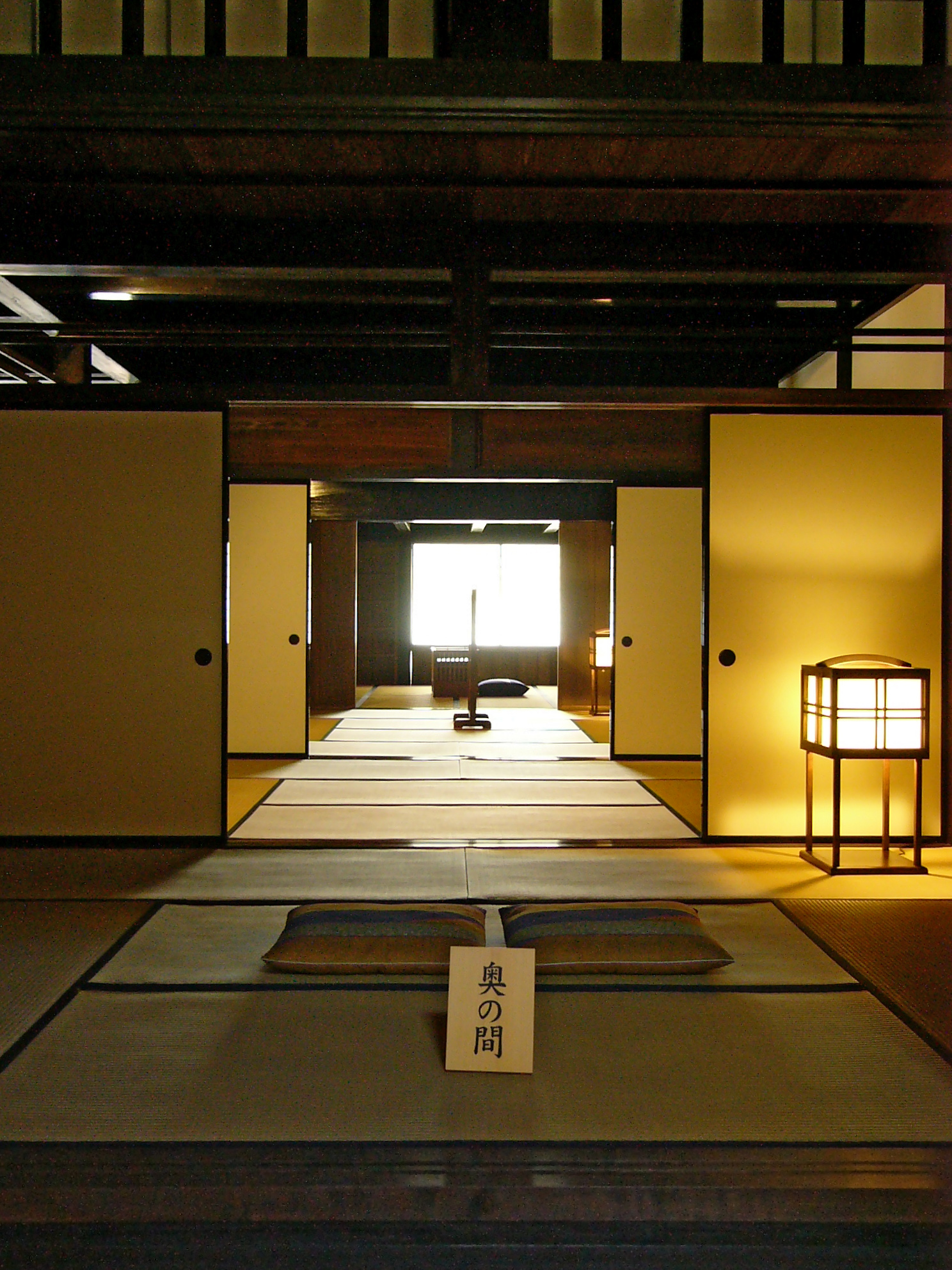 Old Okada House in Itami, Hyogo prefecture, Japan